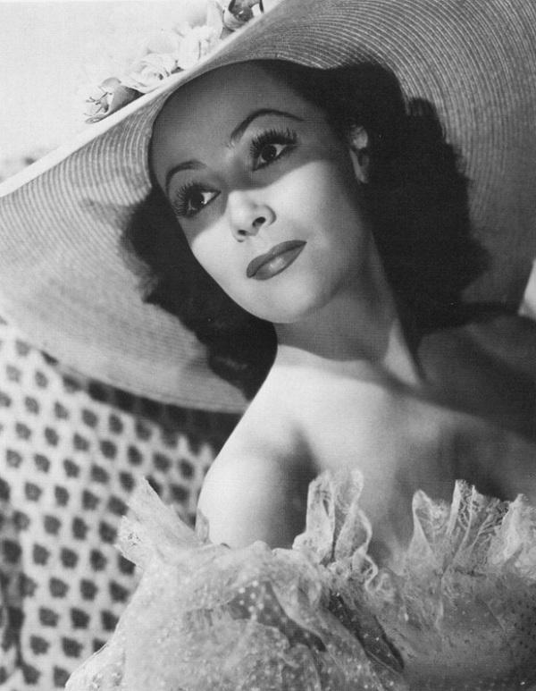 Dolores del Río in the 1940 film "The Man from Dakota".